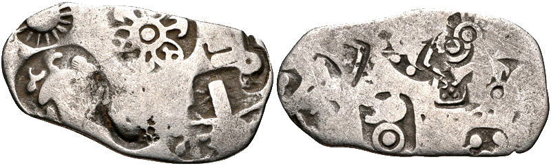 Magadha kingdom Circa 430-320s BC AR Karshapana